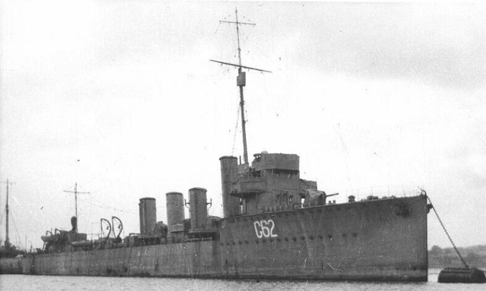 HMS Marksman, one of seven flotilla leaders of the Lightfoot class.